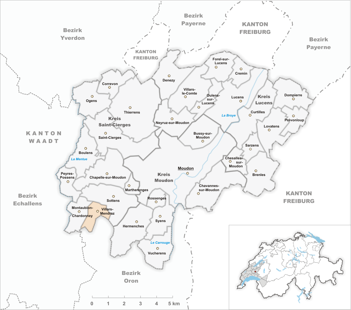 Municipality Villars-Mendraz